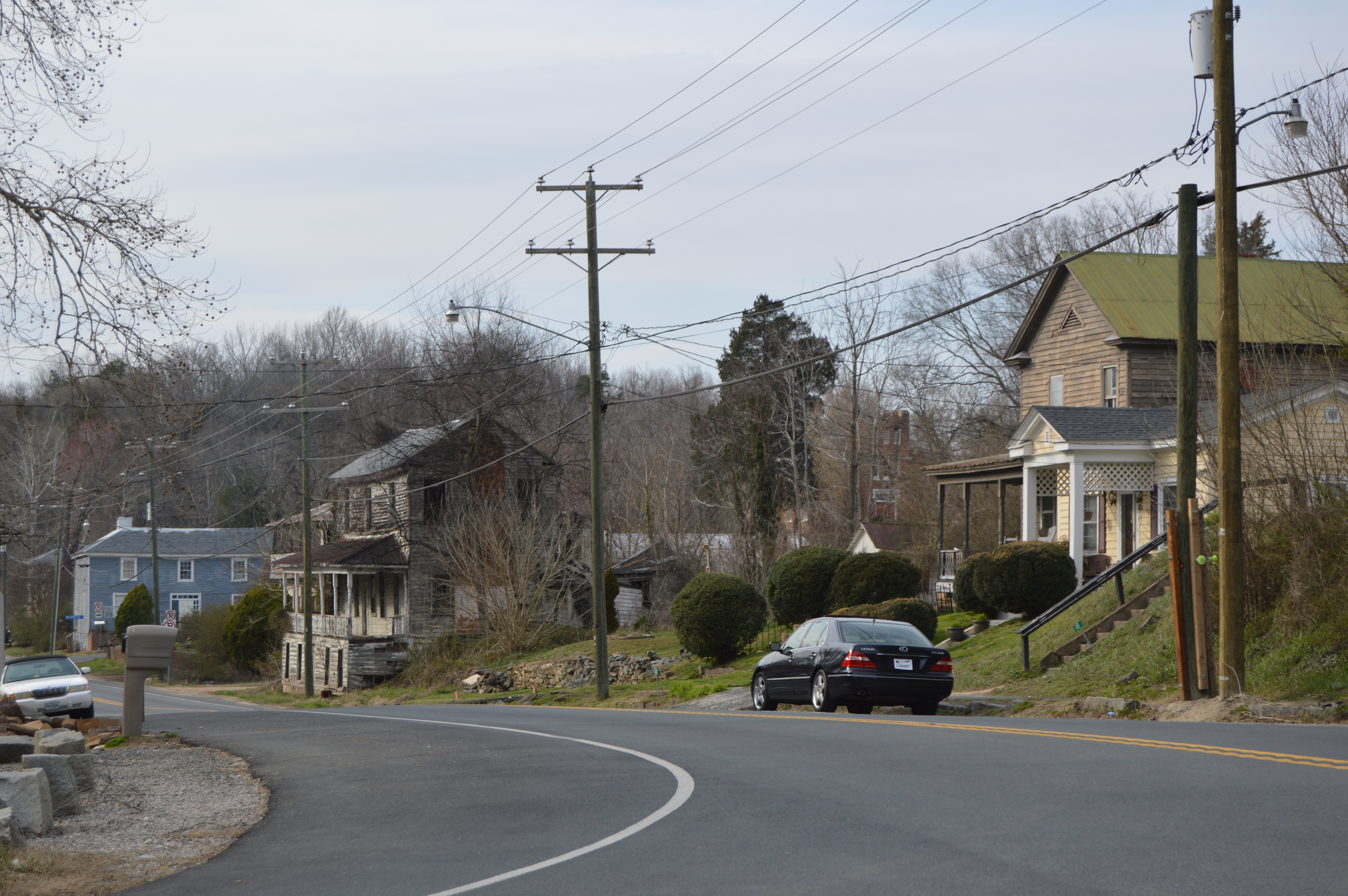 Looking west on Saint James Street (State Route 6) from Columbia Road in Columbia, Virginia, United States.